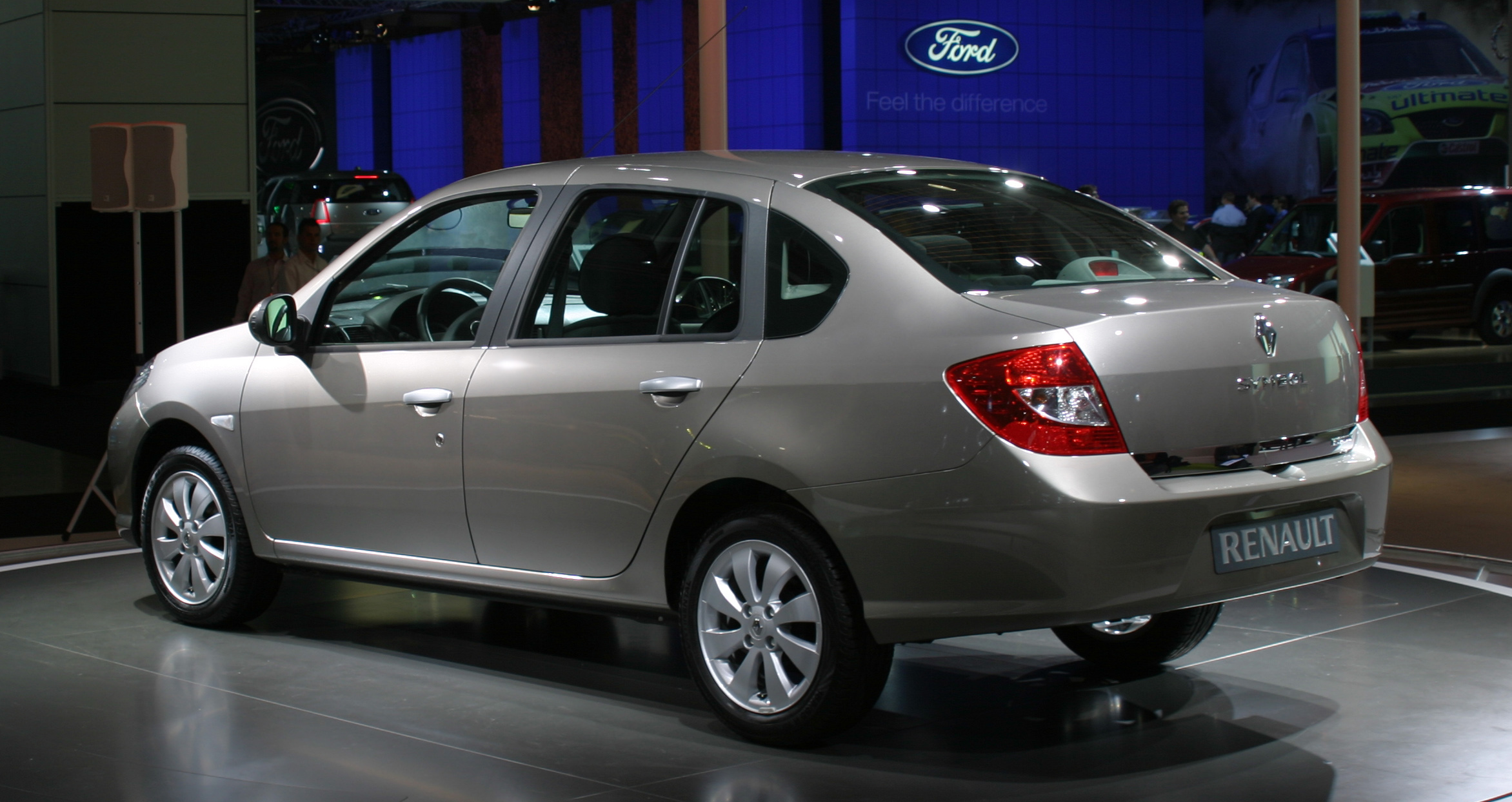 New Renault Symbol debuts at Moscow International Autoshow, 26 august 2008